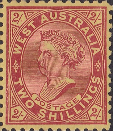 "West Australia" 2 shilling postage stamp, issued 1902.